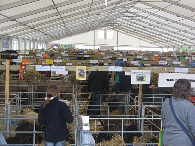 Sheep pens, Royal Highland Show